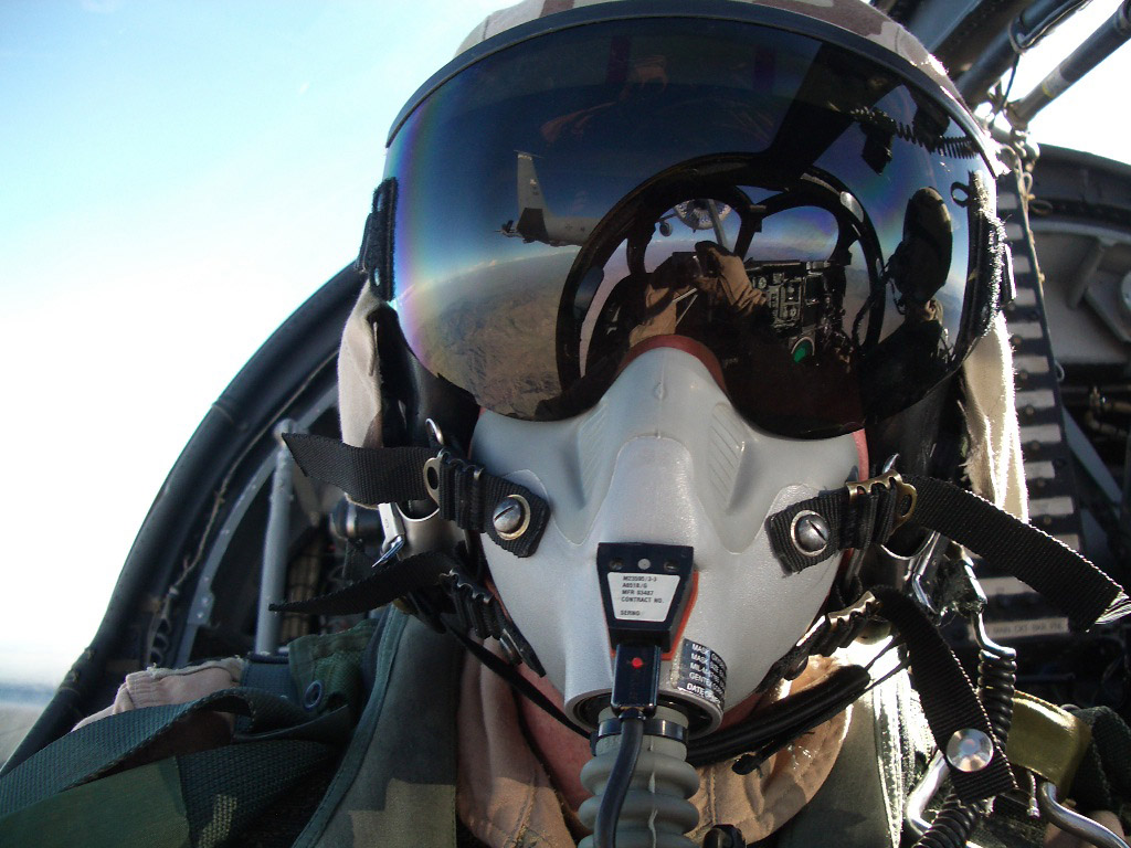 Afghanistan (September 26, 2005) – A U.S. Air Force KC-135 is reflected on the sun visor of a U.S. Navy pilot as he conducts in-flight refueling of his EA-6B Prowler over Afghanistan. The Prowler, assigned to the “Garudas” of Electronic Warfare Squadron One Three Four (VAQ-134), are on a regular scheduled deployment in support of Operation Enduring Freedom (OEF). U.S. Navy photo (RELEASED)